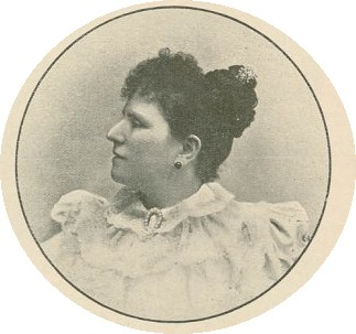 Rosa Damasceno (1845—1904)